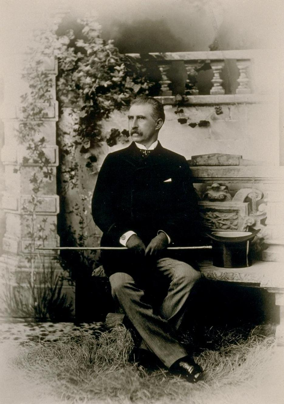 John William Mackay (1831-1902), Irish-American businessman, founder of the Commercial Cable Company.